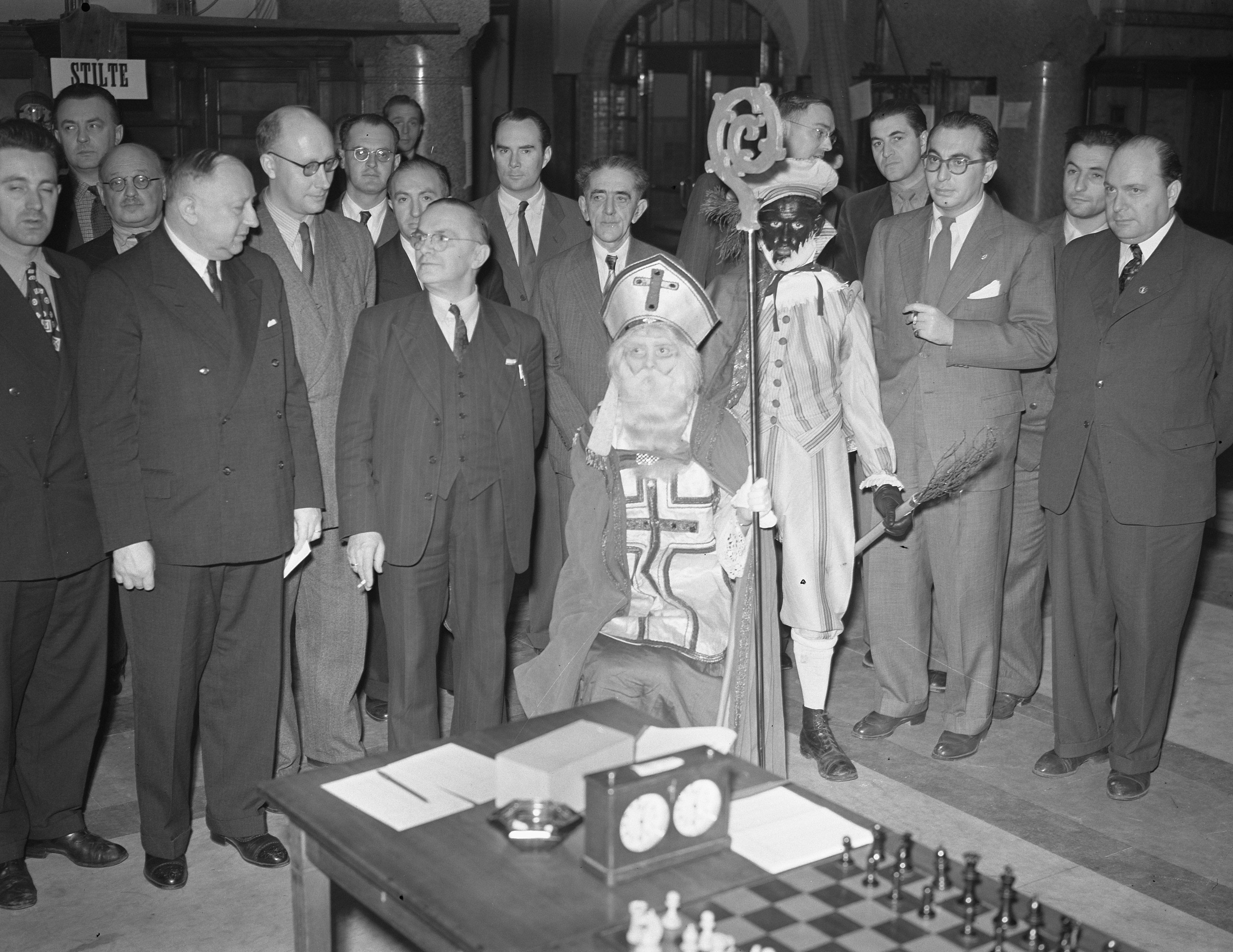 International Chess Tournament Amsterdam 1950. Left to right: (1: Foltys or Trifunović?), (2), (3), (4), Theo van Scheltinga, (6), (7), Miguel Najdorf, (9), Albéric O'Kelly de Galway, (11), Sinterklaas, Black Pete, Max Euwe, Cenek Kottnauer (?), Herman Pilnik, (17), Eugenio Szabados